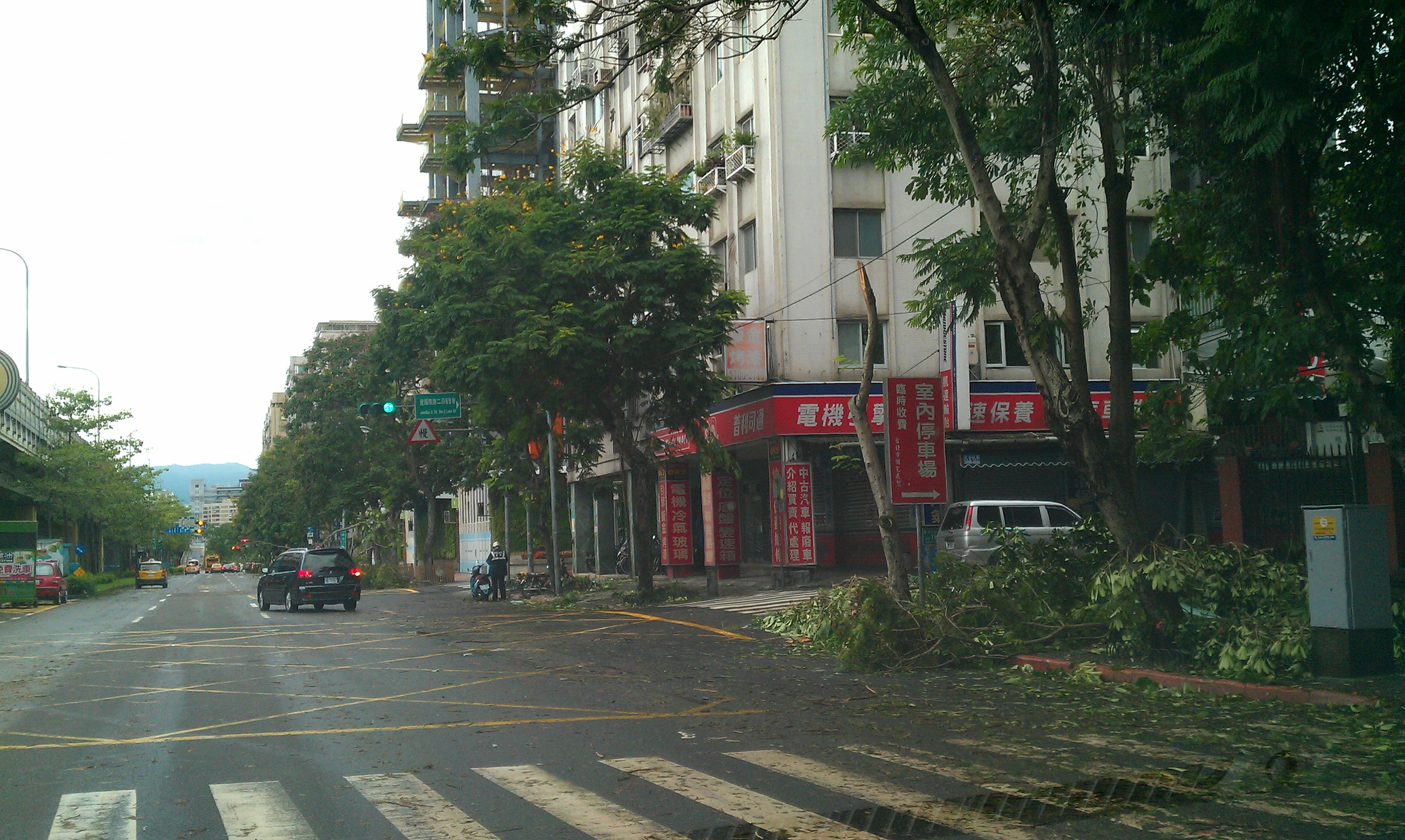 Downed trees in Taipei, Taiwan as a result of strong winds caused by Typhoon Soulik in July 2013.